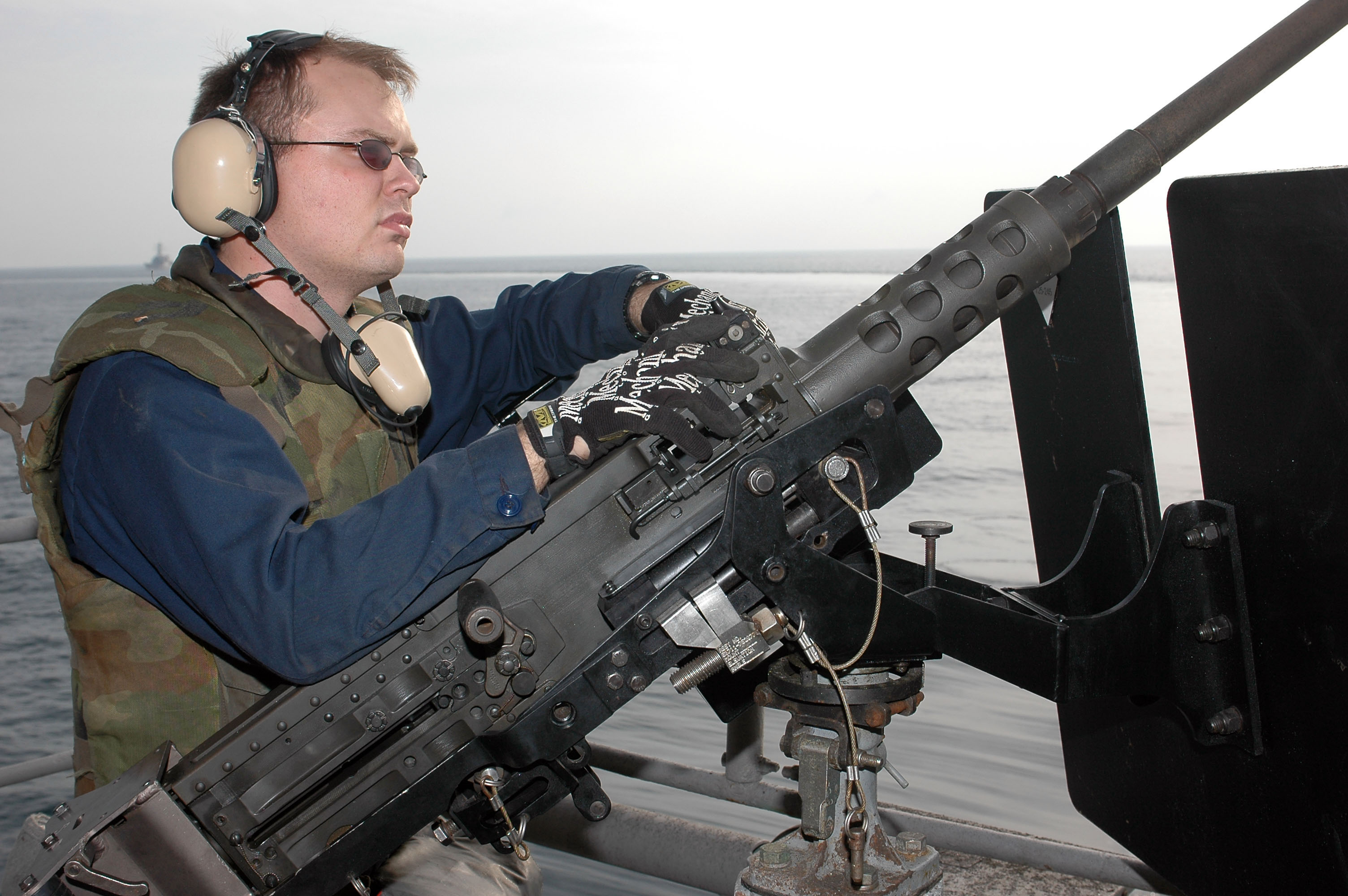 PERSIAN GULF (Nov. 28, 2009) Gunner's Mate 3rd Class Daniel Smith stands ready behind a .50-caliber machine gun during a training evolution aboard the aircraft carrier USS Nimitz (CVN 68). Nimitz is on a routine deployment to the U.S. 5th Fleet area of responsibility. (U.S. Navy photo by Mass Communication Specialist Seaman Apprentice Robert Winn/Released)